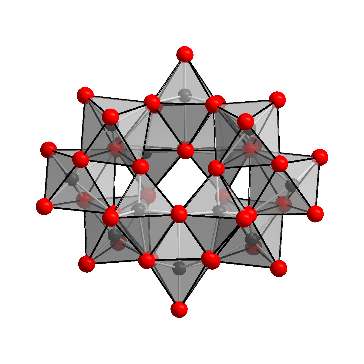 Anion in the structure of ammonium paratungstate. Picture created using Diamond 4. Data from dAAmour, H.; Allmann, R. Die Kristallstruktur des Ammoniumparawolframat-tetrahydrats (N H4)10 H2 W12 O42 (H2 O)4 Zeitschrift fuer Kristallographie, Kristallgeometrie, Kristallphysik, Kristallchemie (-144,1977), 136, 23-47 (1972)